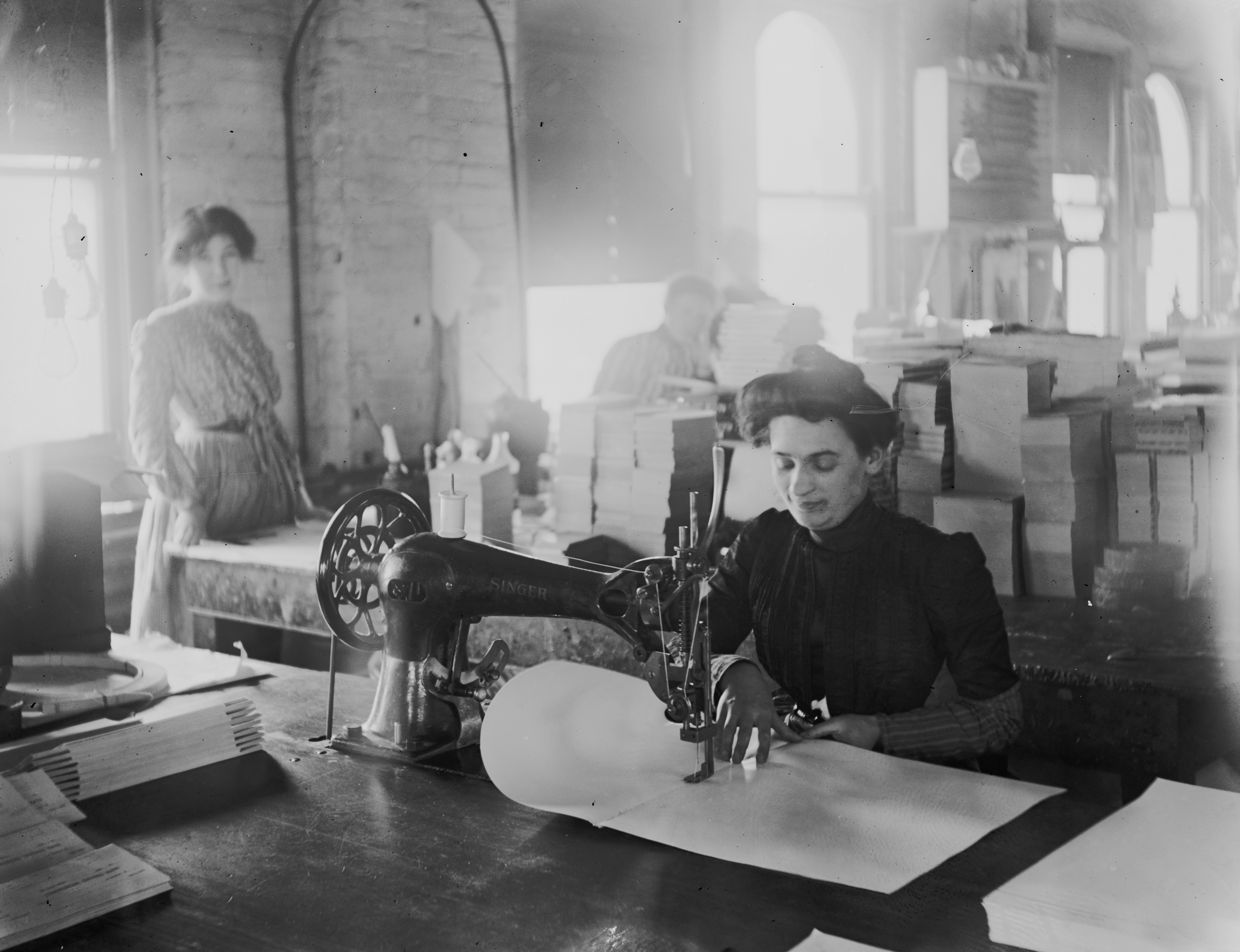 Turn of the century sewing in Detroit.